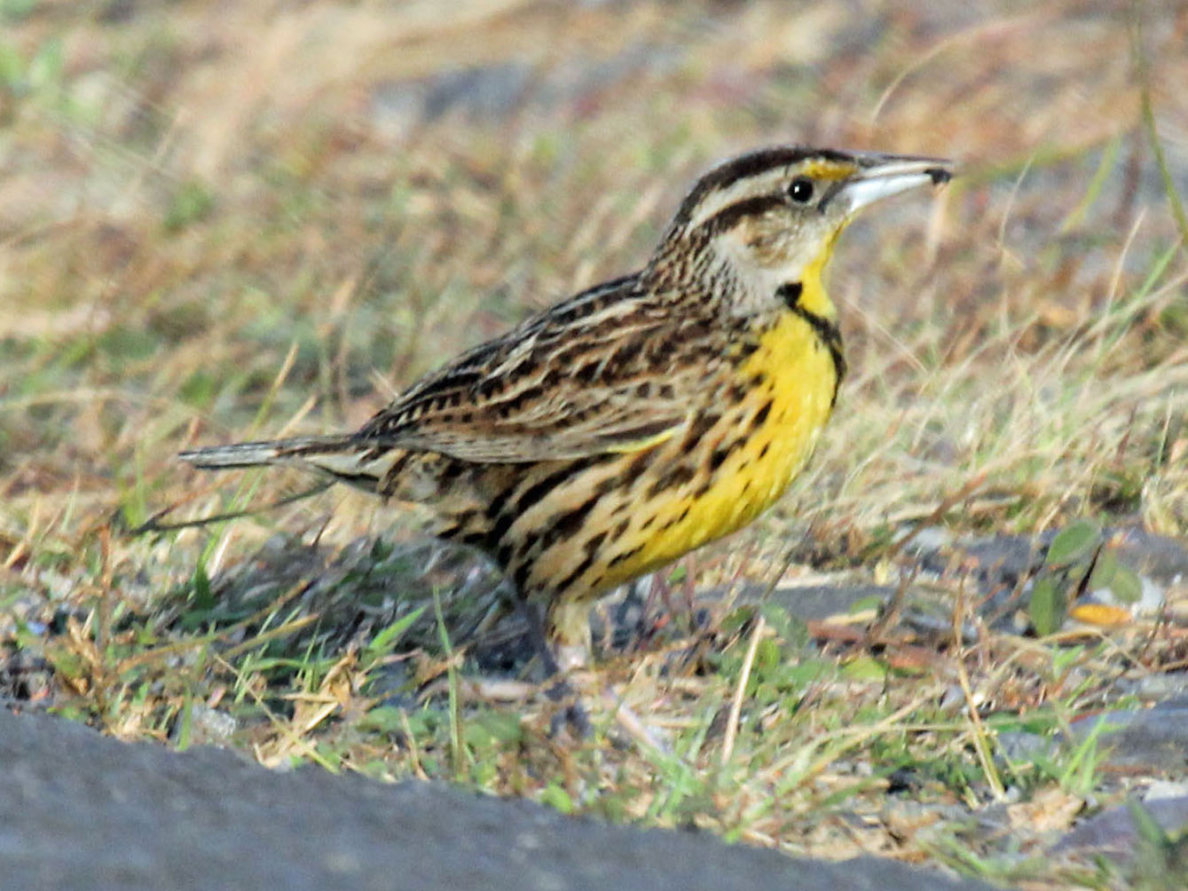 Eastern Meadowlark (Sturnella magna) - Boquette, Panama